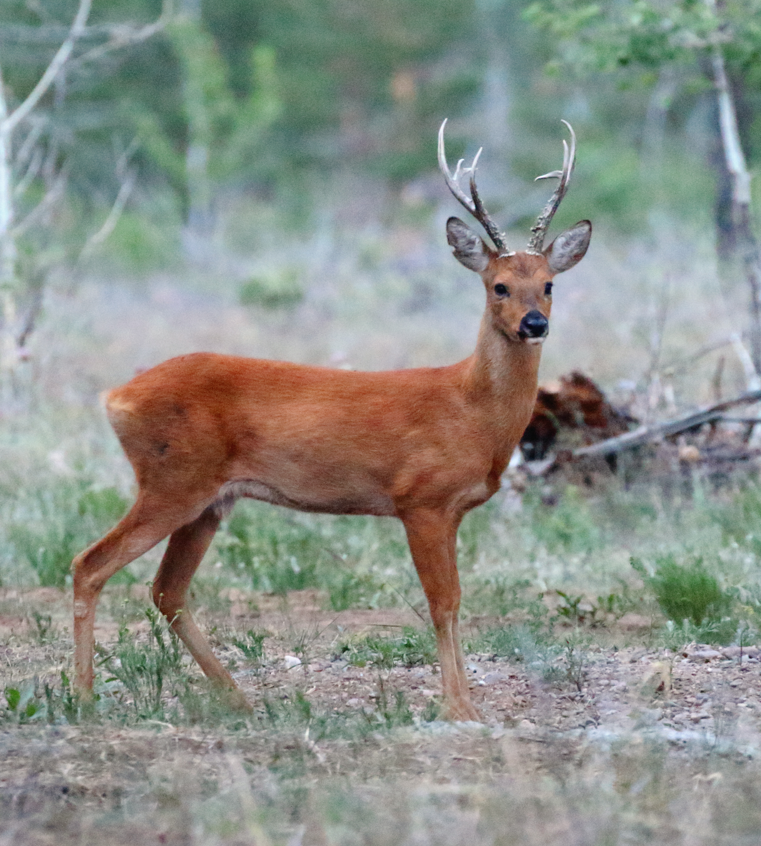 Siberian roe deer at the Daursky Nature Reserve